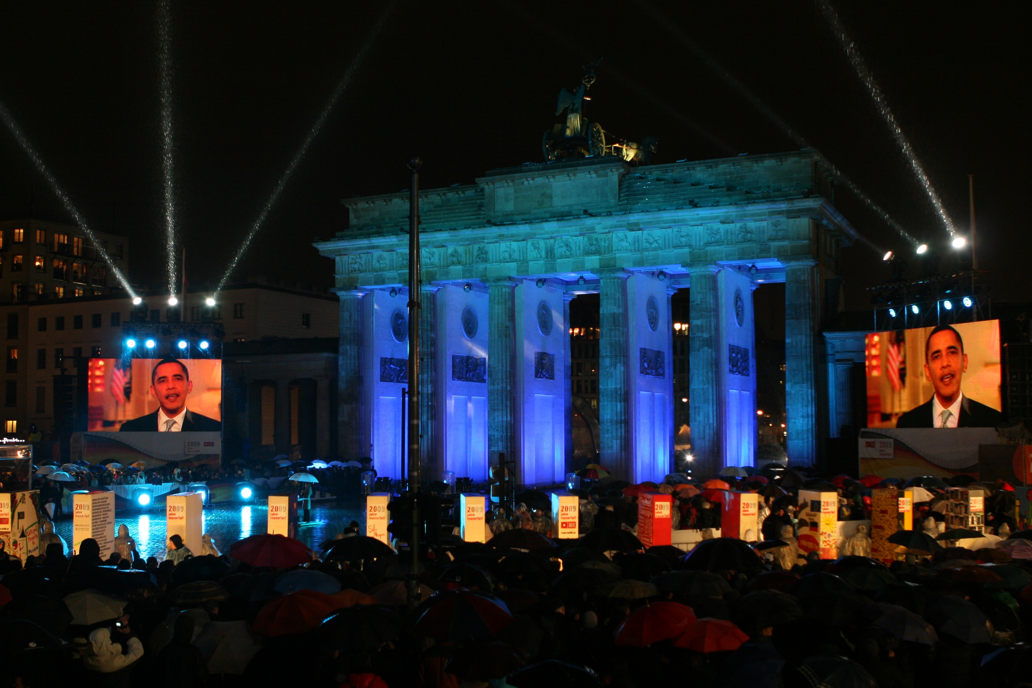 President Barack Obama's video message appeared during the Freedom Festival in Berlin, Germany, where U.S. Secretary of State Hillary Rodham Clinton represented the United States at the 20th anniversary celebration of the fall of the Berlin Wall, Nov. 9, 2009.